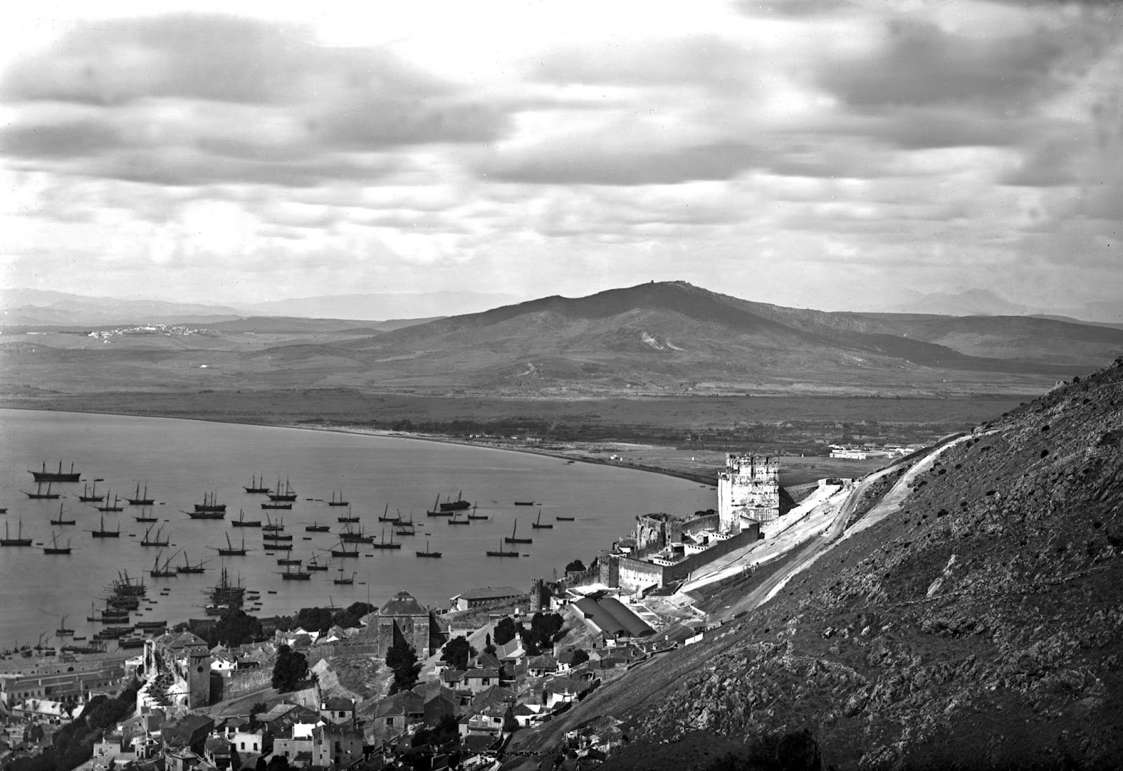 San Roque y parte de La Linea desde Queens Road. Photograph from c. 1880 byGeorge Washington Wilson (died 1893) of a place in Gibraltar - images found by Neville Chipolina